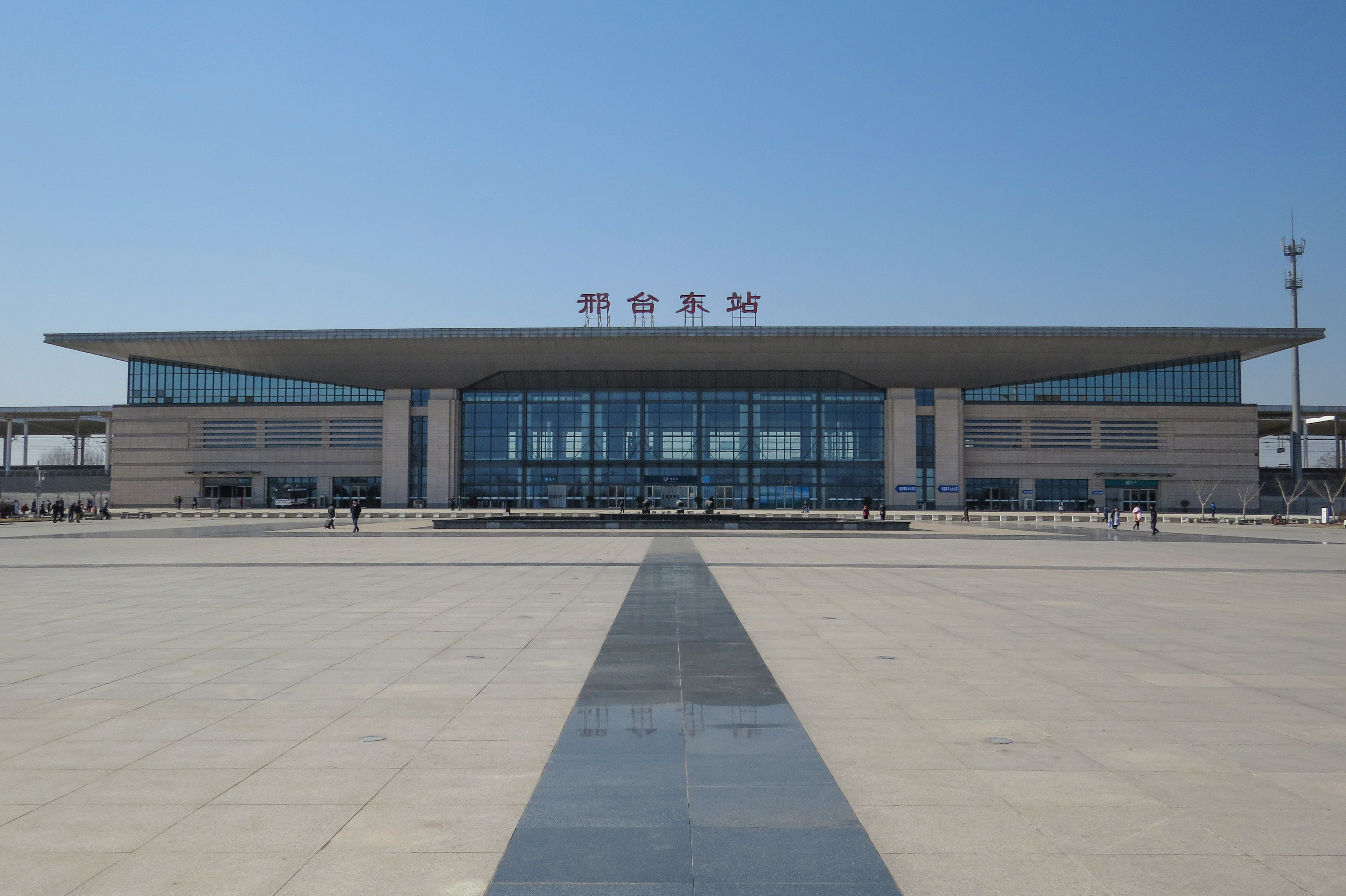 This station is situated in Xingtai County. Happened to be an unpolluted day in this city in southern Hebei.